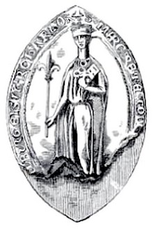 Margaret of Bar